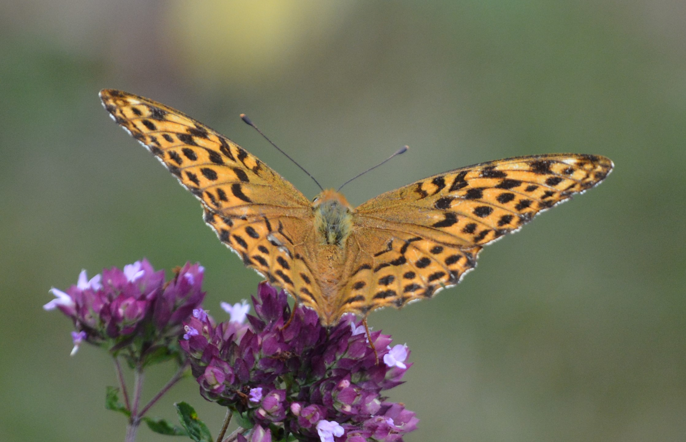 Silverstreckad pärlemorfjäril på en kungsmynta, Stockholm, den 30 juni 2016